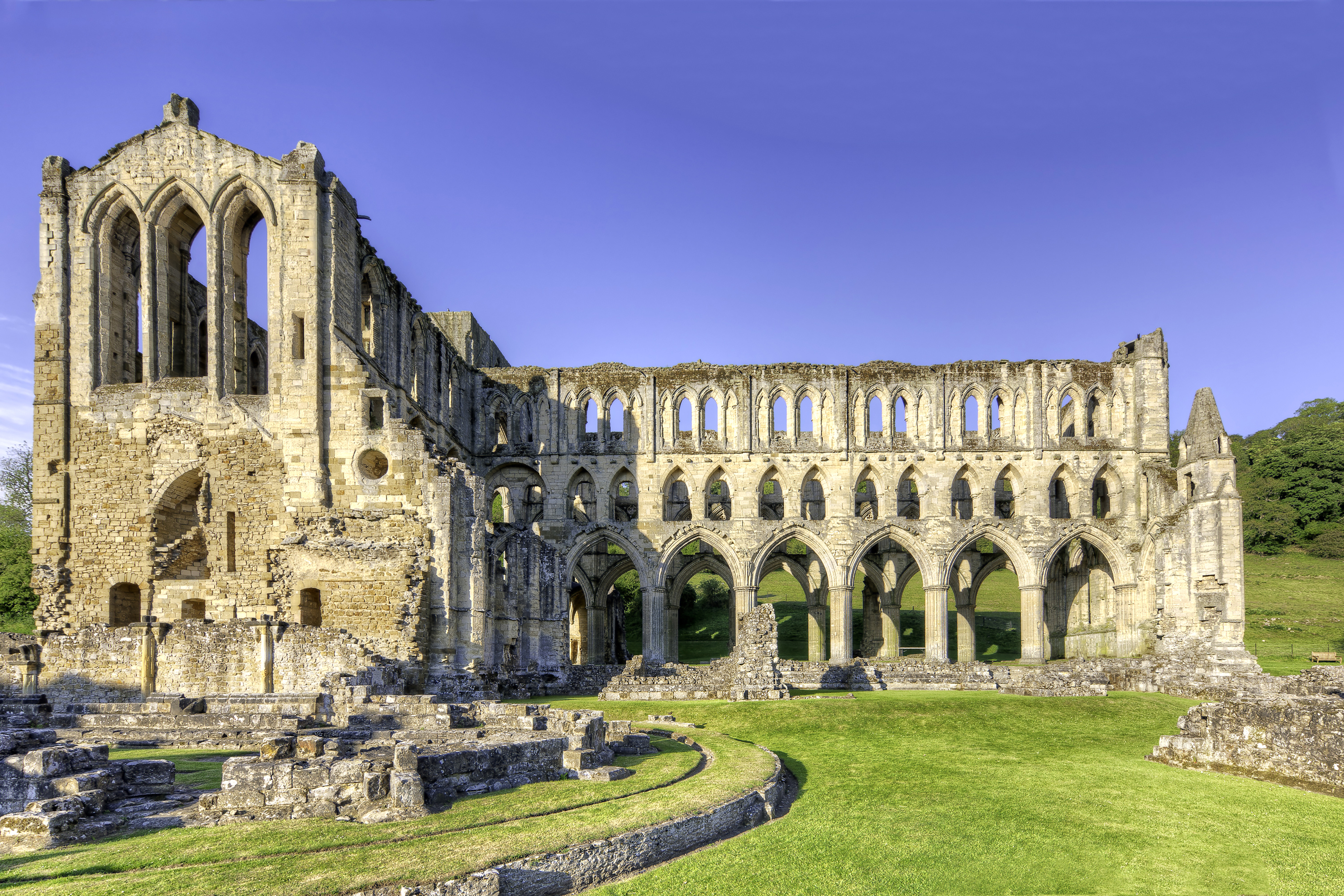 Rievaulx Abbey with Chapter House ruins in foreground